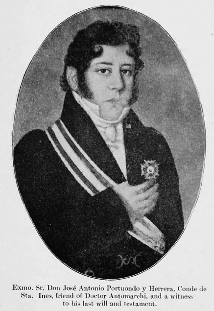 Picture of Lord José Antonio Portuondo y Herrera, Conde of Santa Ines.